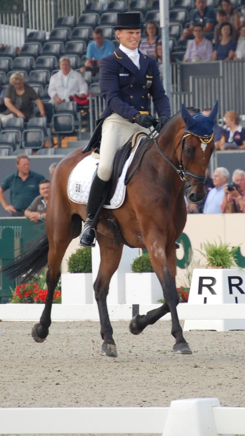 Frank Ostholt and Little Paint (German Sport Horse[1]) at the 2011 European Eventing Championship, Luhmühlen (dressage competition)